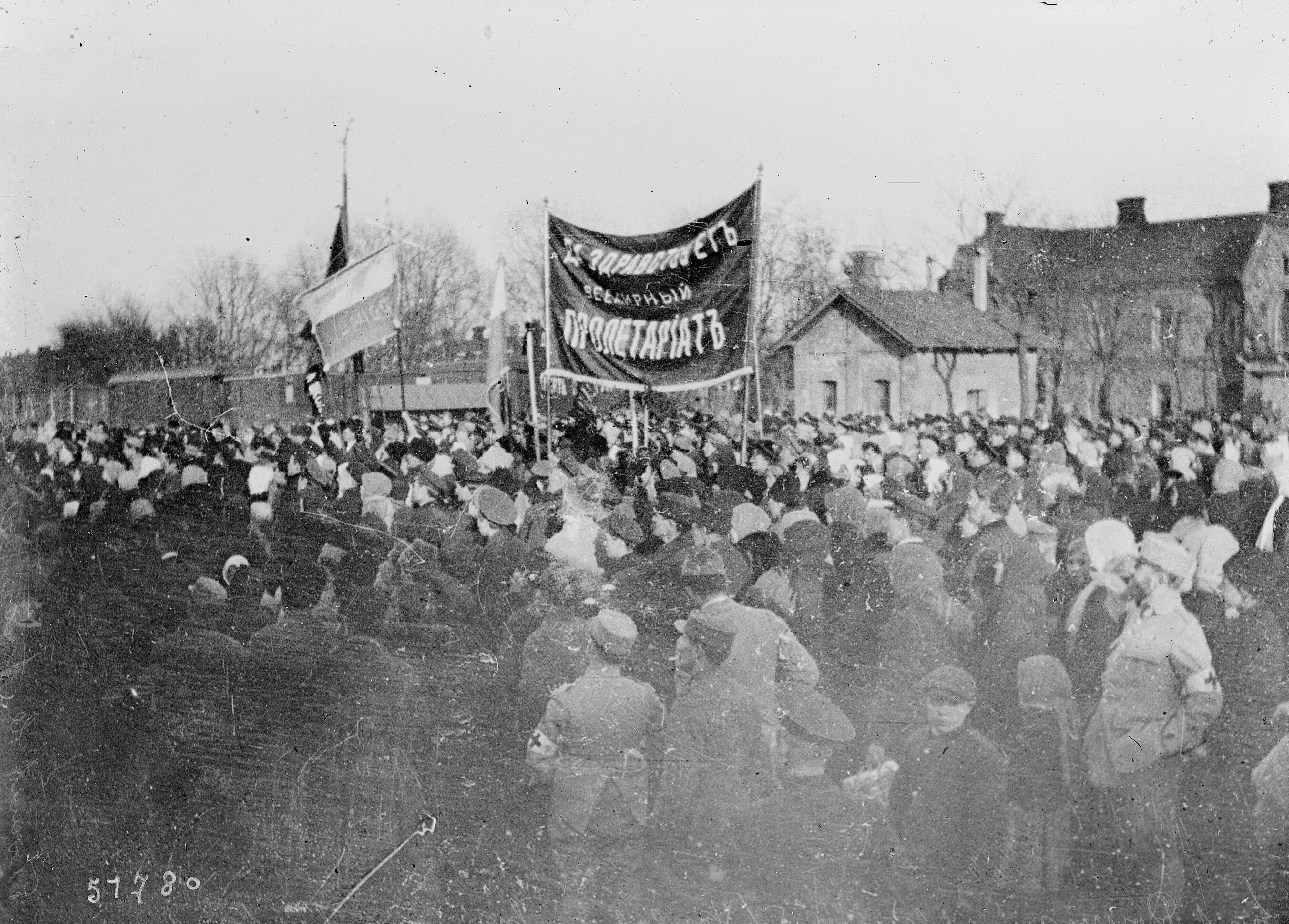 Original description: Front roumain allemand, bolchevicks manifestant devant le train de la mission ("The Romanian-German front, Bolsheviks demonstrating in front of the [French] mission [to Romania] train"). The photograph probably shows a town in Moldavia, and the protesters, wearing Russian uniforms, hold up a banner with Cyrillic text "ДА ЗДРАВСТВУЕТЪ ВСЕМИРНЫЙ ПРОЛЕТАРІАТЪ" (Long live the world proletariat); onlookers include medics in Romanian attire. Taking into account absence of leaves on the trees, the photograph is presumably taken in late 1917, not only after the February Revolution stirred revolt among the Russian troops on the Romanian front but likely also after the infamous October Revolution and before 5 January 1918 (Grigorian calendar) Russian orthography reform.